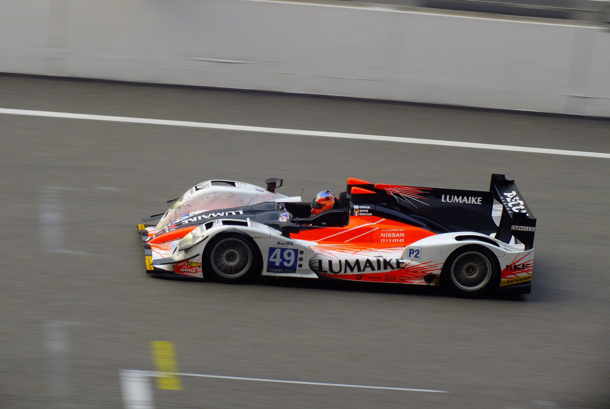 Nicolas Minassian in the Pecom Racing Oreca 03-Nissan at the 6 Hours of Shanghai